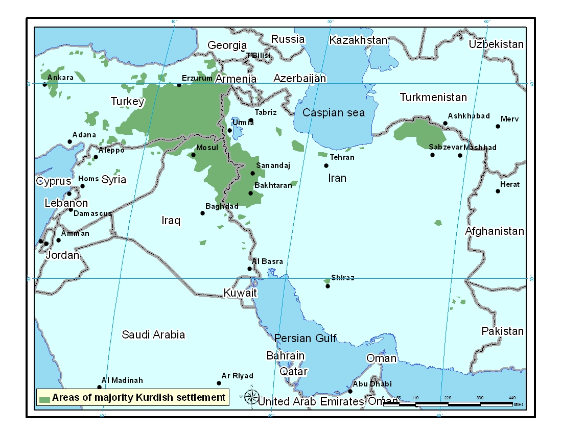 Areas of majority Kurdish settlement